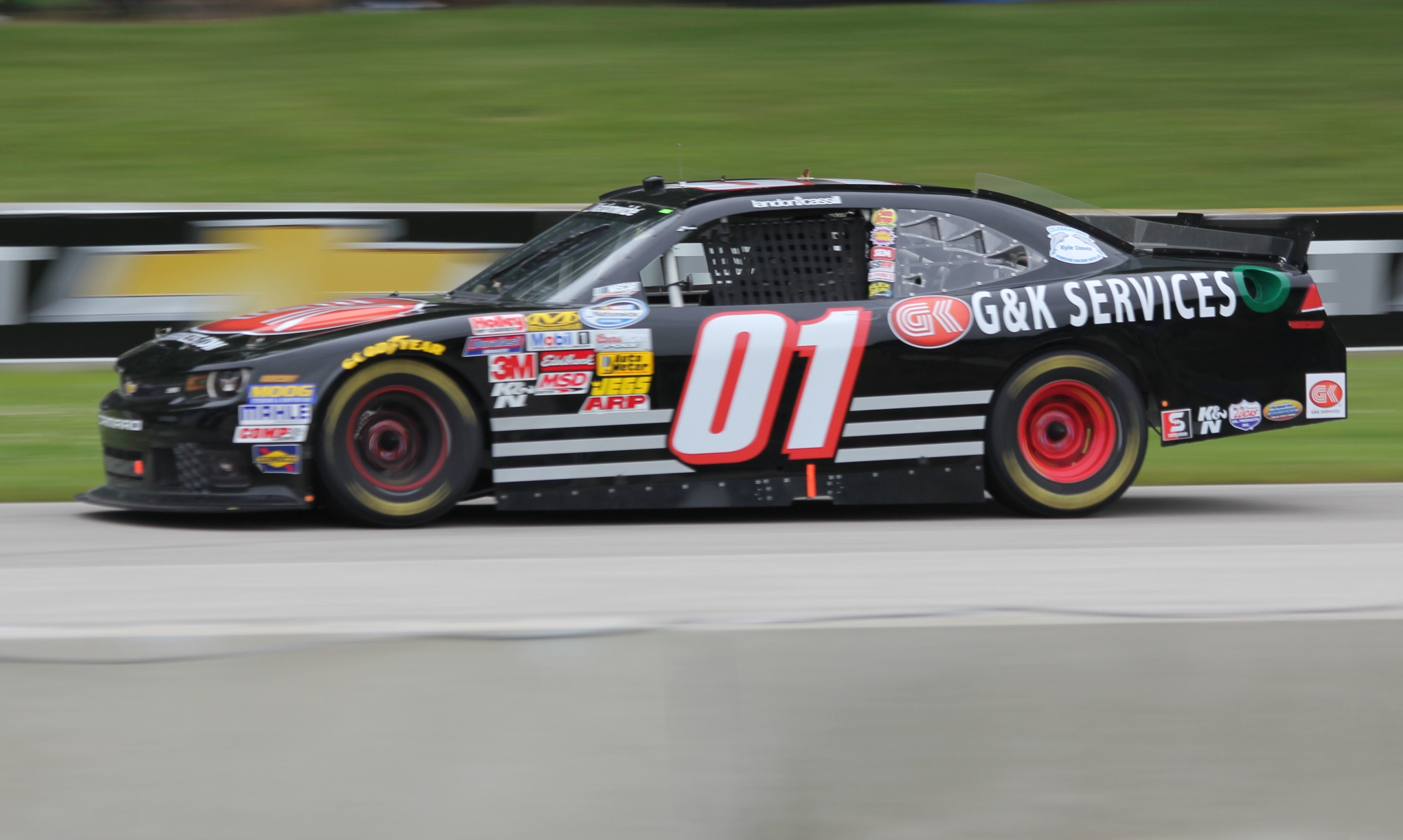 The driver's side of Landon Cassill during the 2014 Gardner Denver 200 at Road America. Taken racing uphill between turns 5 and 6.